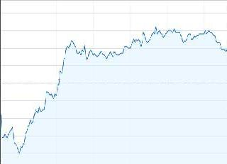 Graph of the variations of the price of stock in Cisco (CSCO) on October 30th 2006